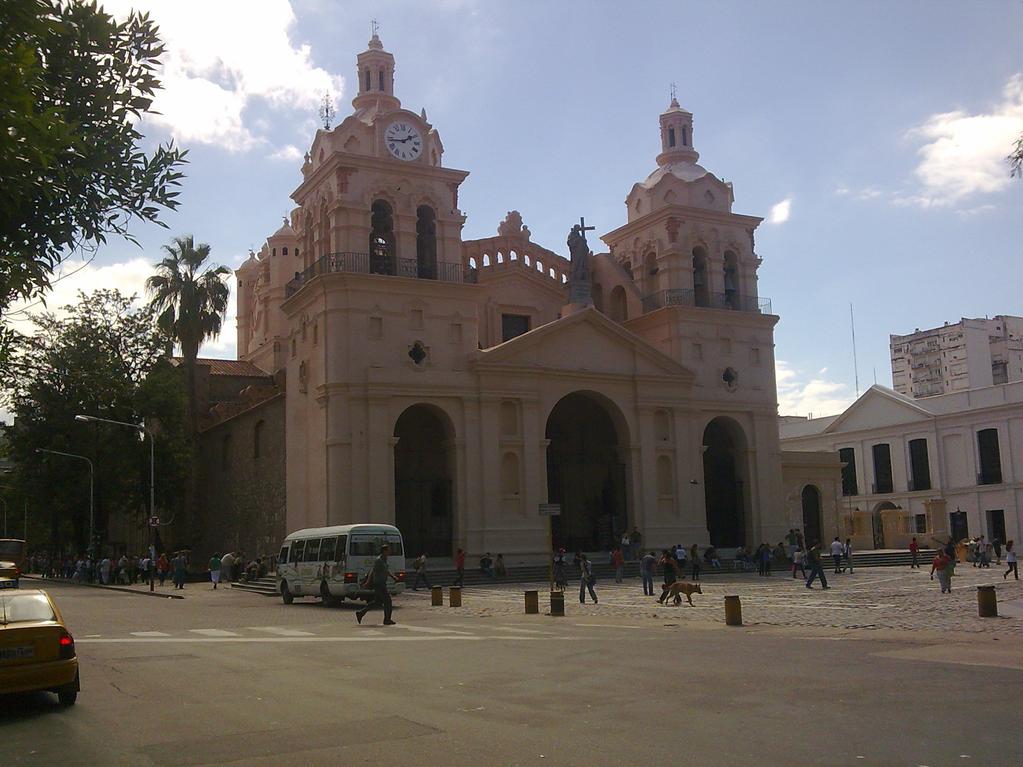 Cordoba, Argentina cathedral.